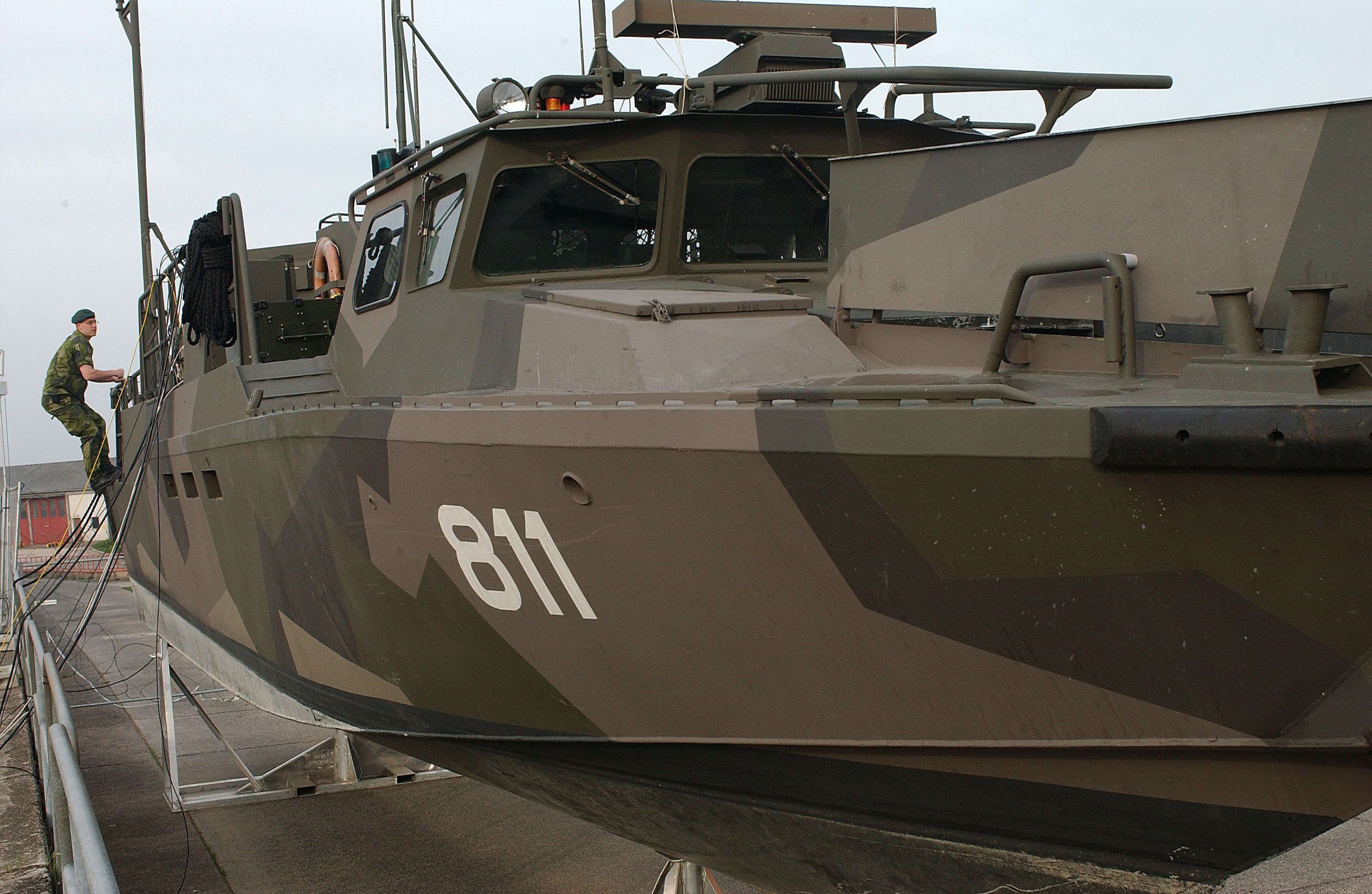 Swedish Marine 1st Lt. Jonas Haramarstedt climbs aboard the Swedish combat boat 90HL, which is acting as a command post during Exercise Combined Endeavor 2006 in Baumholder, Germany, May 10, 2006. Combined Endeavor 2006 is the largest security cooperation, communications, and information system military exercise in the world, representing 41 partner nations, and is sponsored by the U.S. European Command. (U.S. Air Force photo by Airman 1st Class Josie Kemp) (Released)